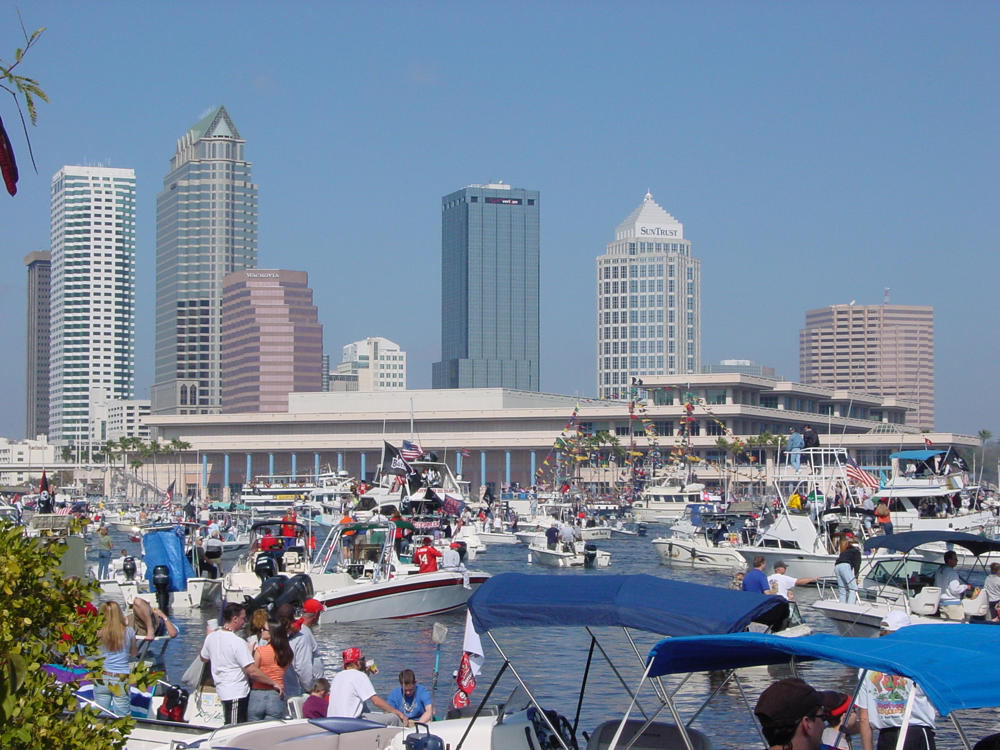 This photograph is of Downtown Tampa and Tampa's Convention Center during Gasparilla Pirate Fest, which is held yearly in Tampa, Florida.